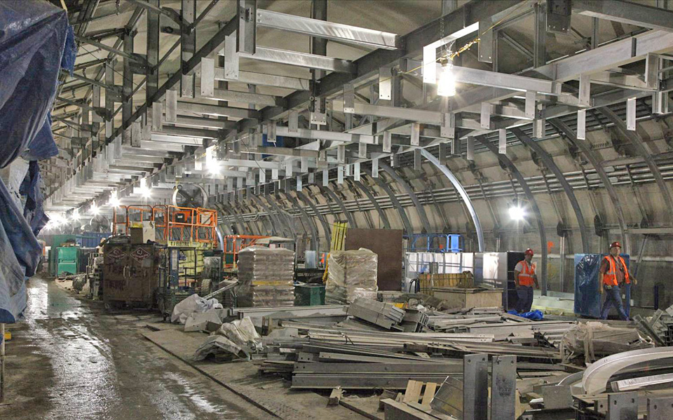 This photo shows the future 34th Street Station of the 7 Line as of September 2012.Monthly megaproject construction update from MTA Capital Construction. This photo shows the future 34th Street Station of the 7 Line as of September 2012. Photo: MTA Capital Construction.